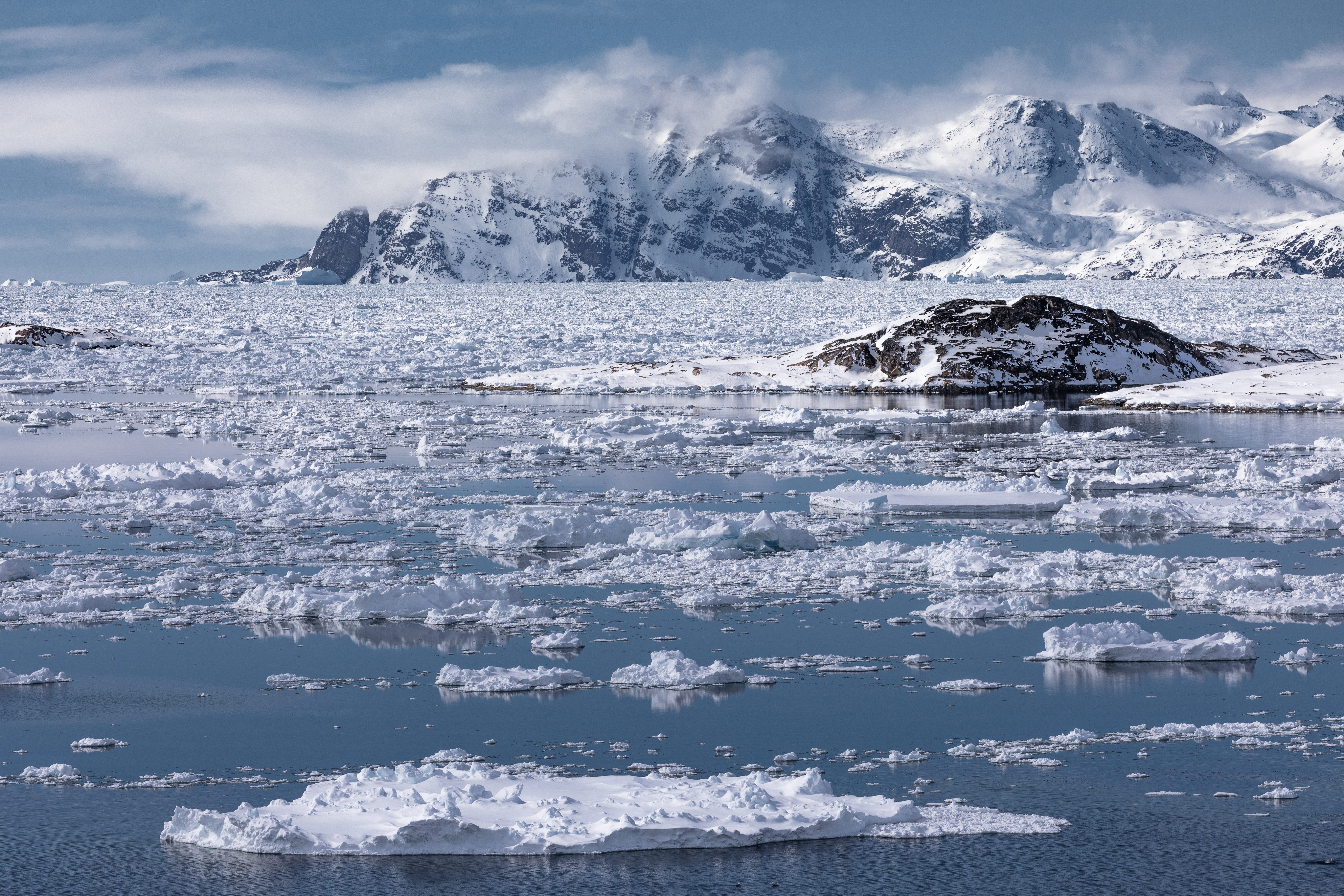 Ammassalik Fjord filled up with drift ice.